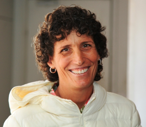 Ilana Berger, 2012